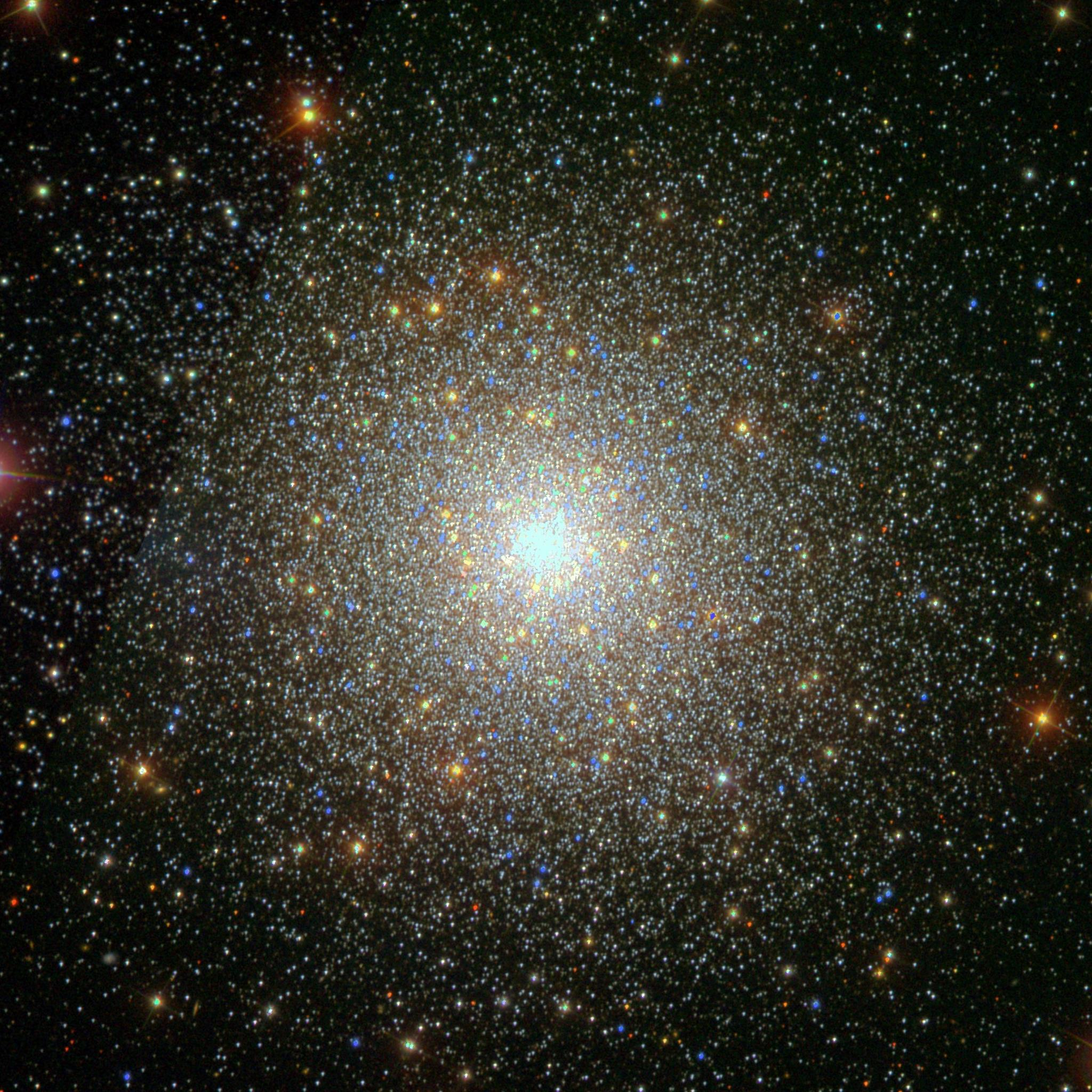 Angle of view: 12' x 12' (0.3515625" per pixel), north is up.